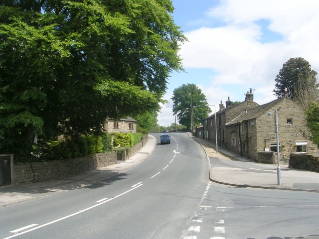 Harden Road - viewed from Narrow Lane